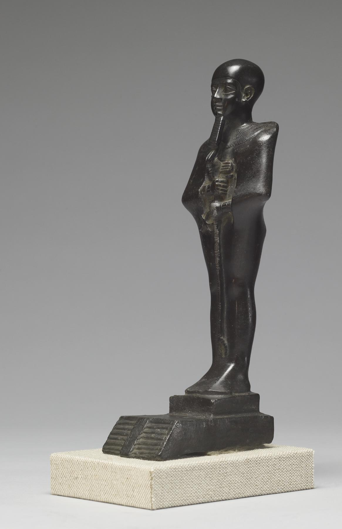 Ptah was believed to have created the world with his words. He was the main god at Memphis and patron god of craftsmen and artists. Here, he holds a composite scepter combining three symbols: "was" (well-being), "ankh" (life), and "djed" (stability).